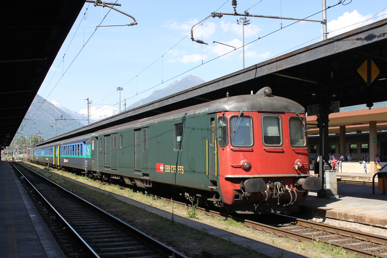 SBB CFF FFS driving trailer Dt 50 85 92-33 935-4 at Domodossola.